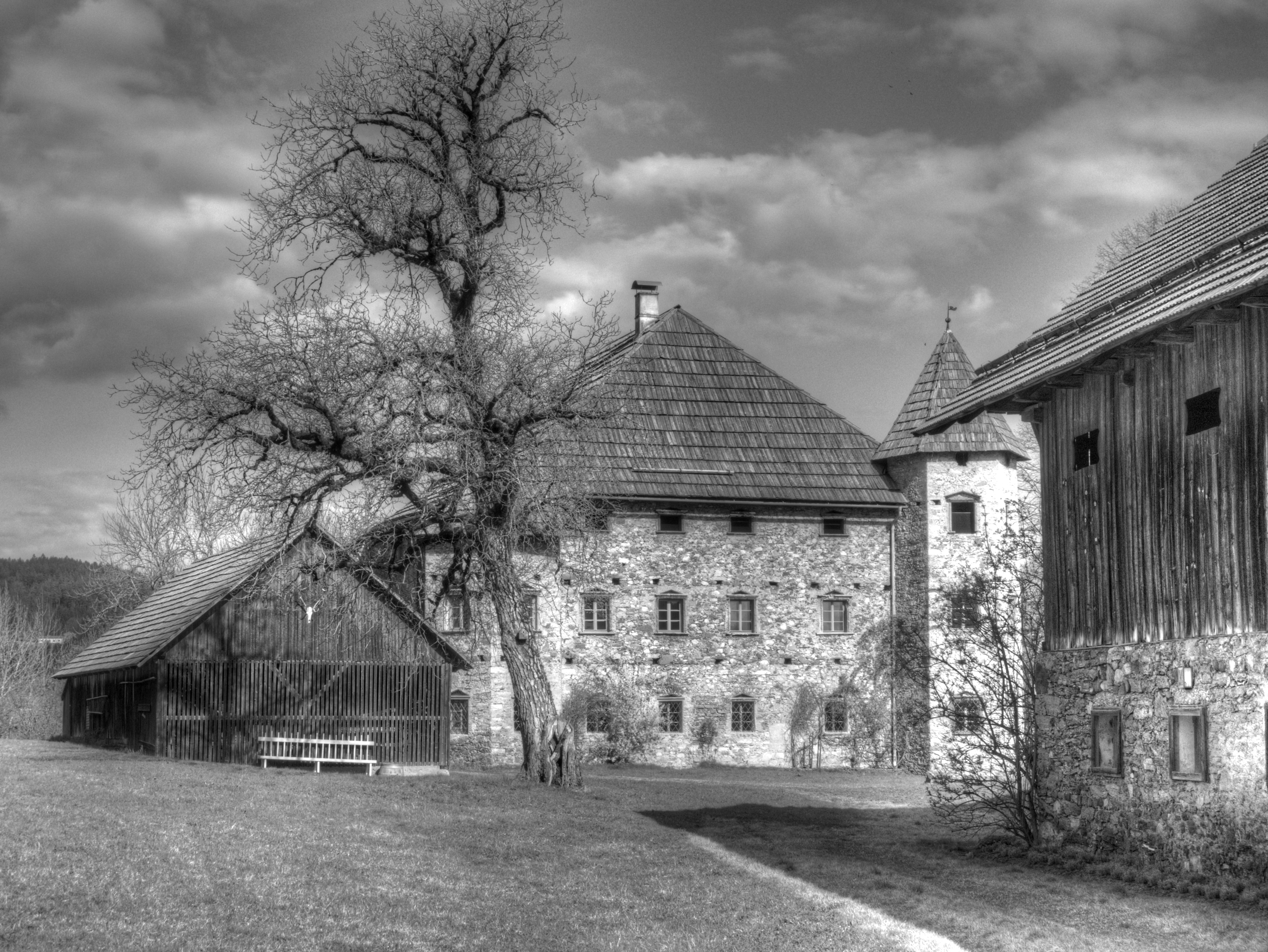 Pöllan Castle, courtyard of an administrator, in Pöllan at Paternion around 2011, district Villach-Land in Carinthia / Austria / EU. The still not finished construction of rubble stone was built by Christoph von Haidenreich from 1598 to 1616. He was a Protestant administrators of the county Paternion, who was forced by the Catholics in Carinthia for sale and into exile. From 1616 the castle was owned by Moritz Christoph Khevenhüller. Since 1629 the castle is owned by the family Widmann, today the family Widmann-Foscari Rezzonico. In the left foreground a large wood shed, next to a walnut, and on the right side the former barn.